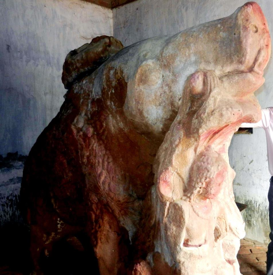 The Vaarah Statue in Apsarh